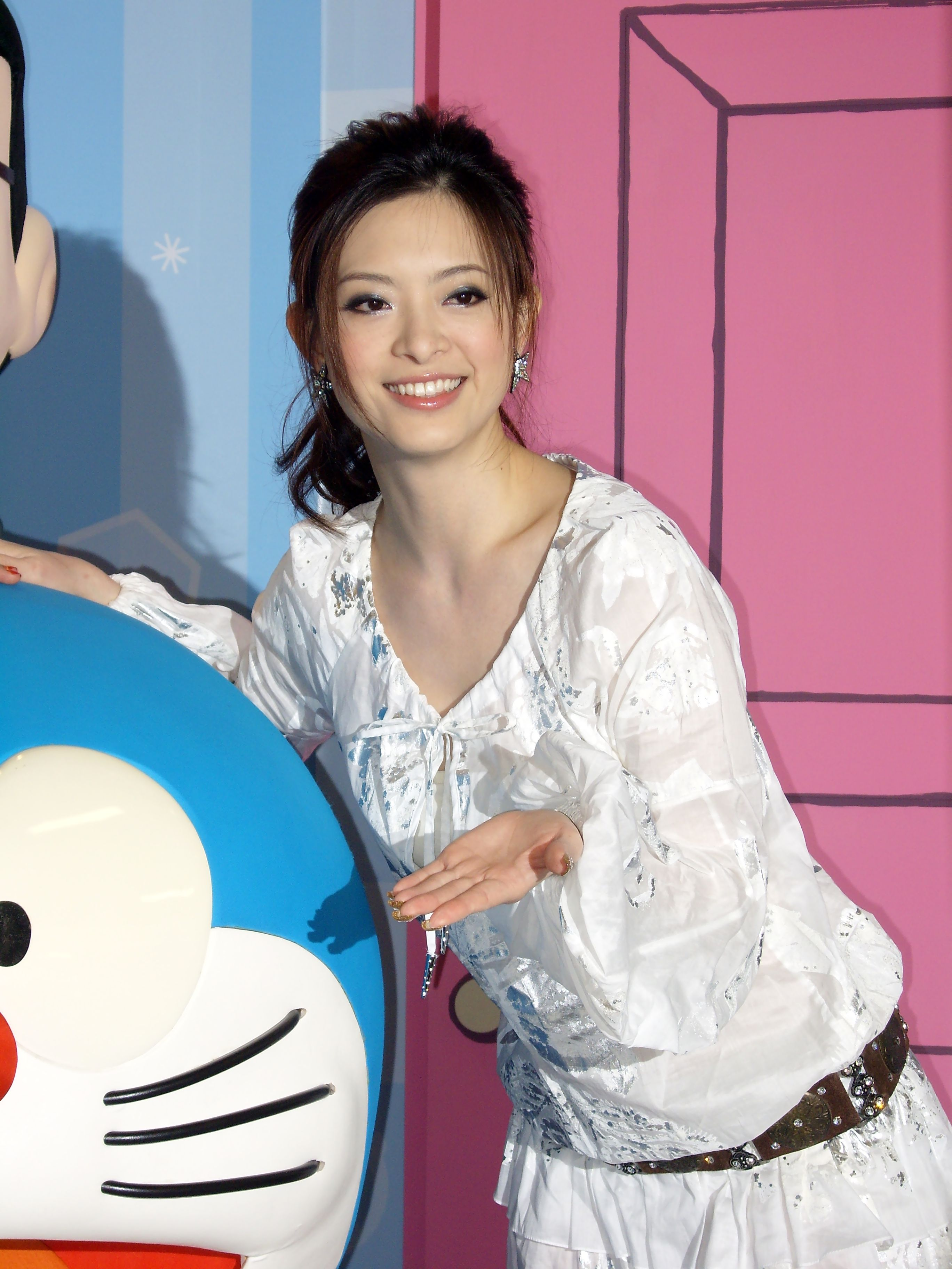 A Taiwanese dancer Serena Liu at 2007 Taipei TFCOM.中文（台灣）: 藝人劉真出席2007台北影視節。